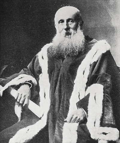 Joseph Braithwaite (1848-1917), mayor of Dunedin, New Zealand (1905-06) in his mayoral robes